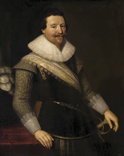 Portrait of the Duke of Wallenstein (1583-1634).